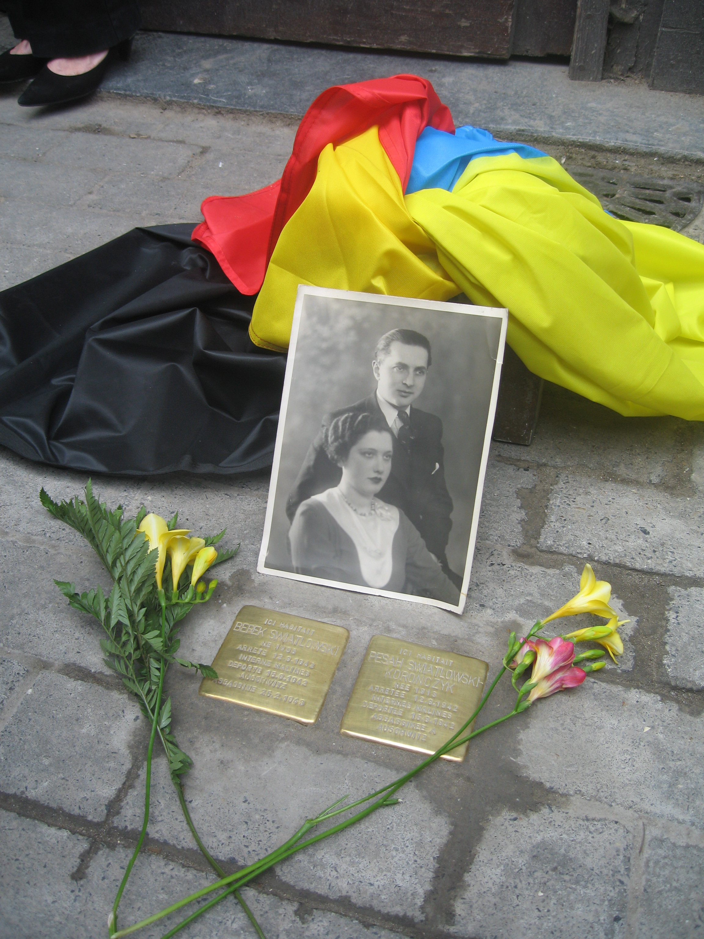 Stolpersteine in Brussels for Berek and Pesah Swiatlowski, photographed by a family member